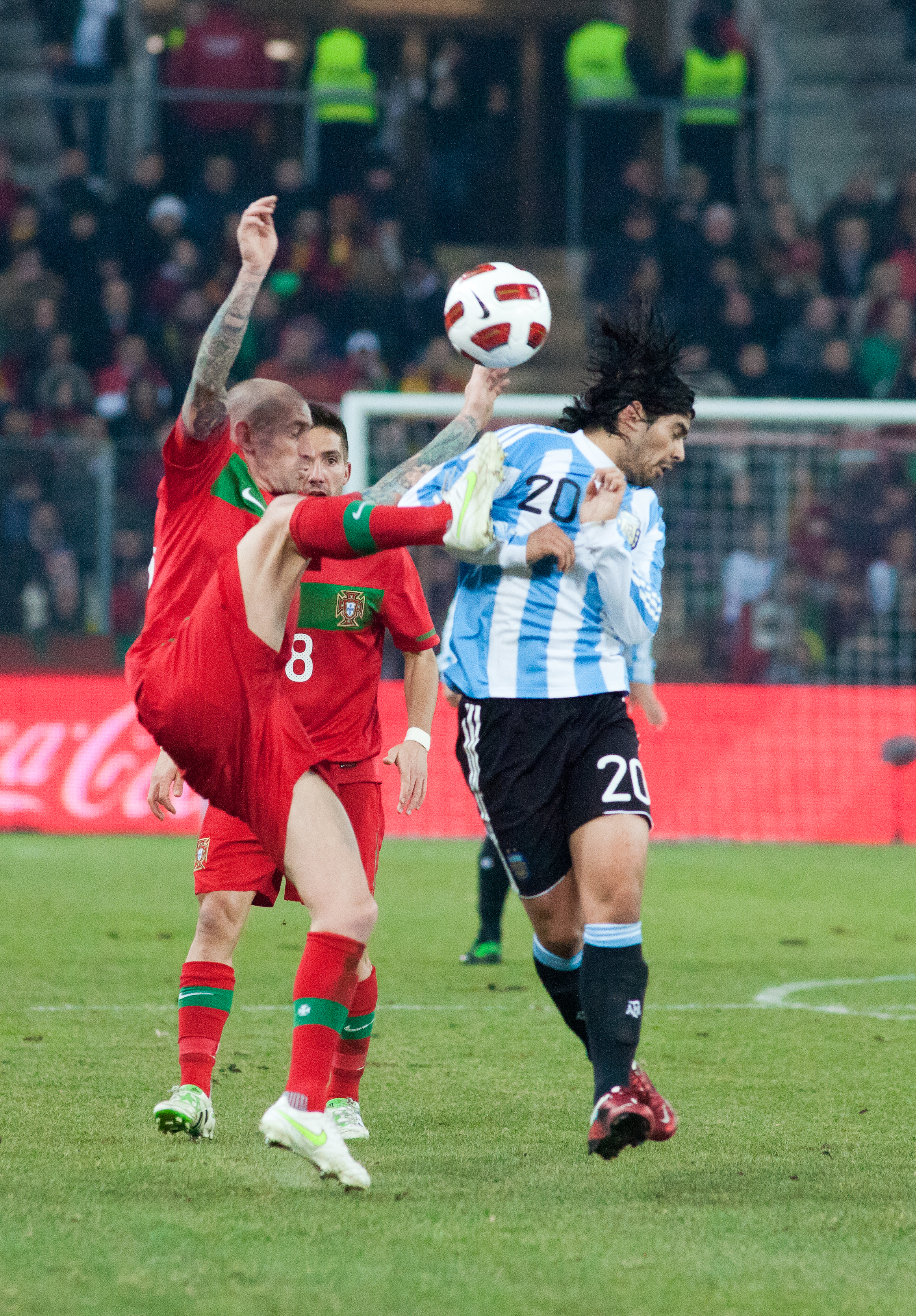 The making of this document was supported by Wikimedia CH. (Submit your project!) For all the files concerned, please see the category Supported by Wikimedia CH. Portugal vs. Argentina, 9th February 2011